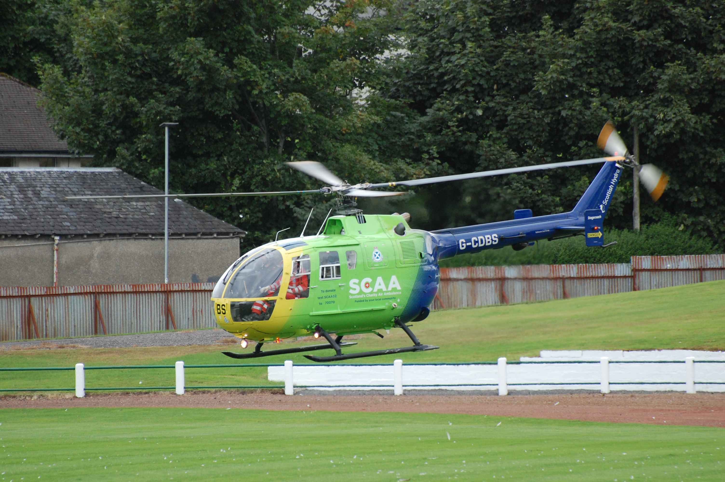 Scotland's charity air ambulance, Helimed 76. An MBB Bo 105 operated by Bond Air Services.